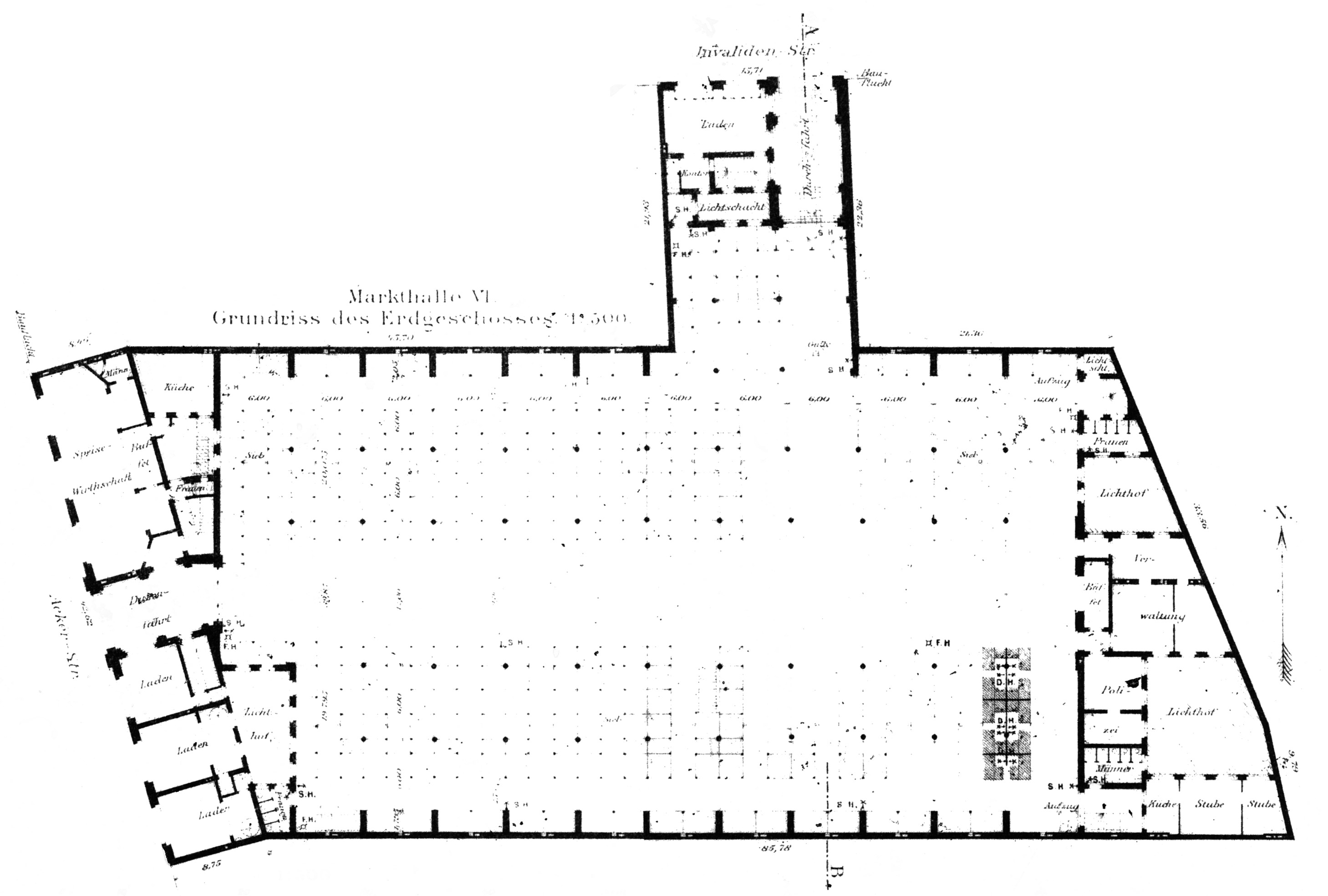 Berlin - market hall VI, plan